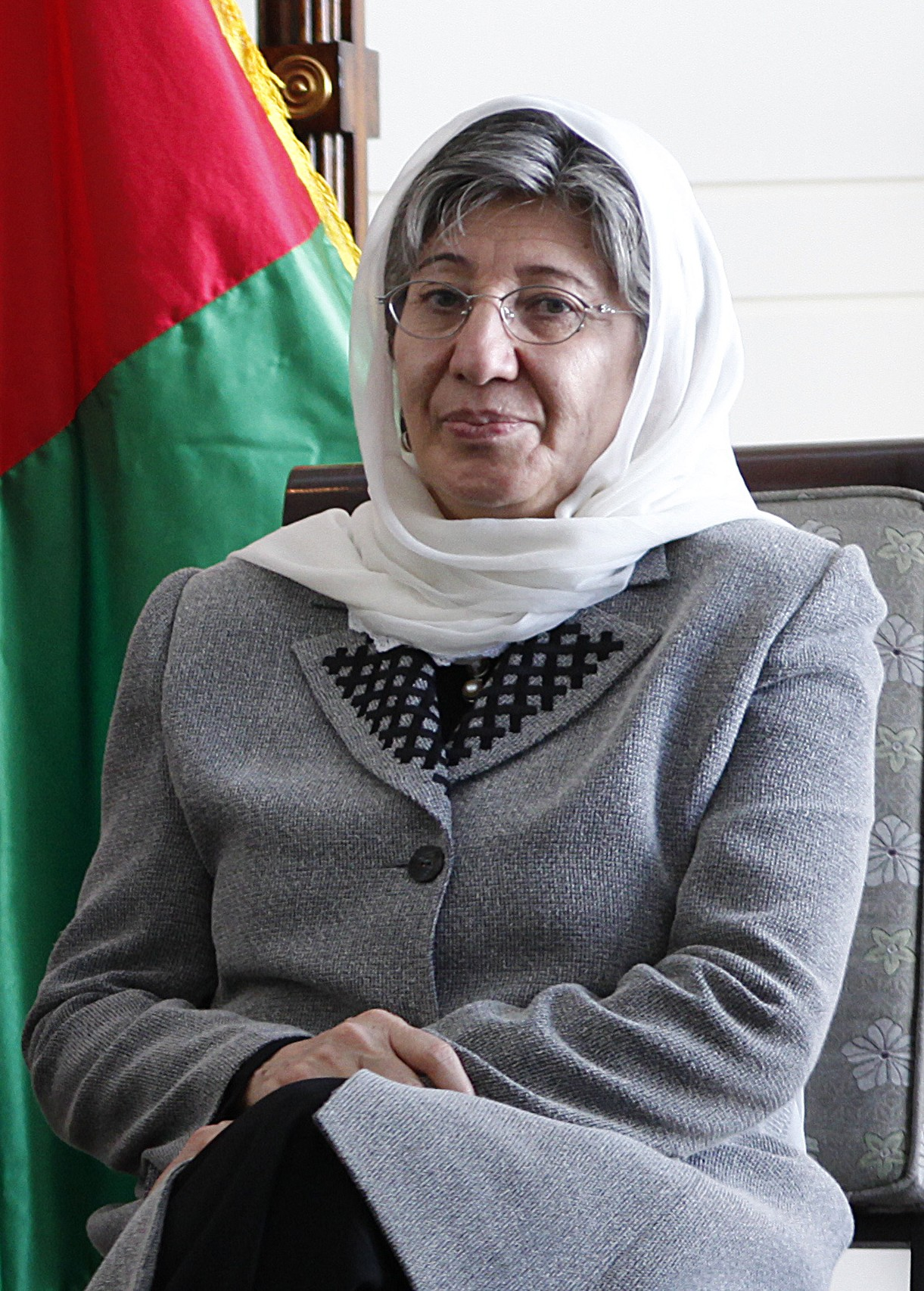 Sima Samar, Afghan civil society leaders at the U.S. Embassy in Kabul, Afghanistan.